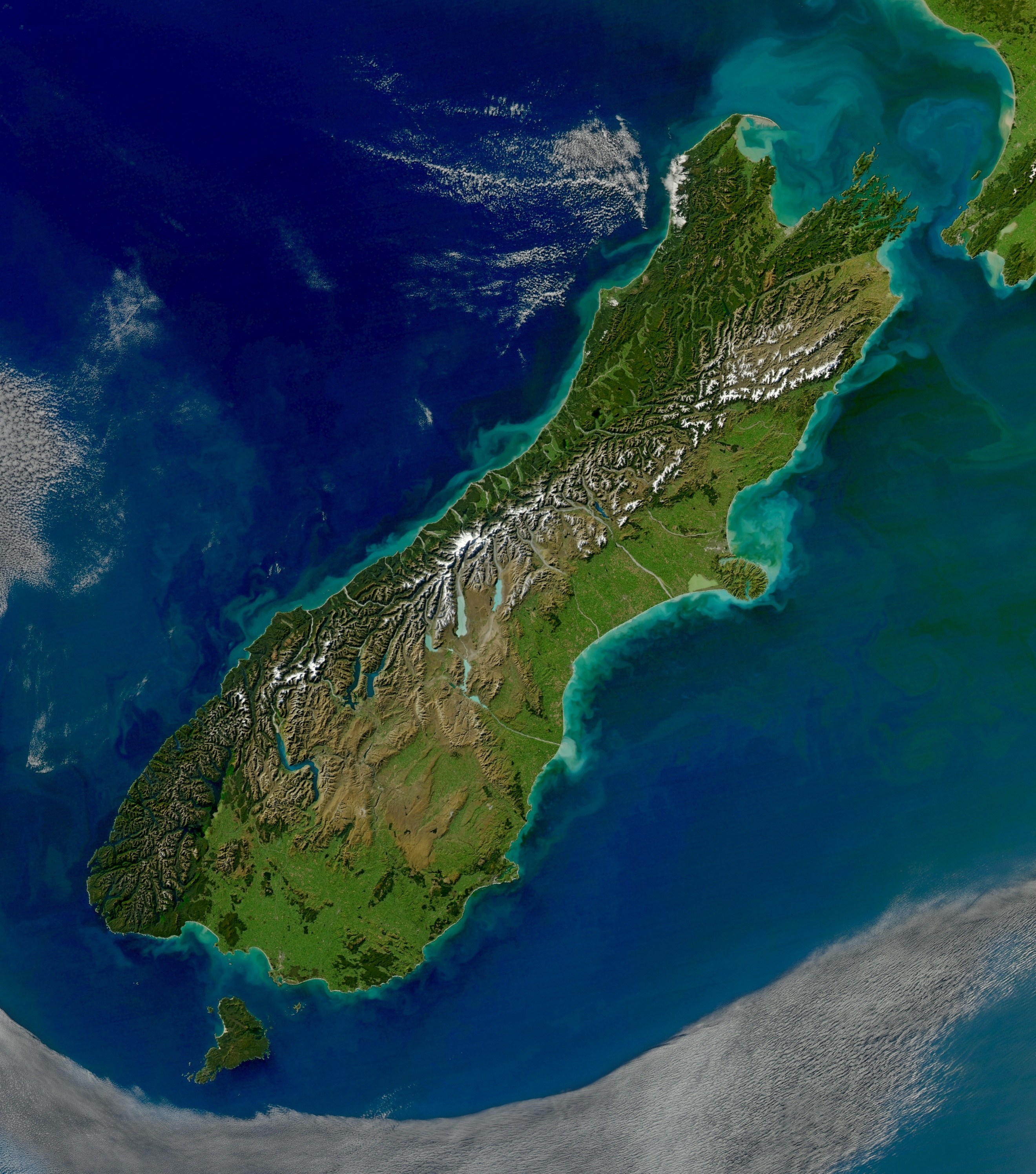 View of sediment from New Zealand's South Island flowing in the Pacific Ocean. The volume of sediment in the water hints at rough seas. Distinctive plumes arise from pulsing rivers, while the halo of turquoise around both islands is likely sediment swept up to the ocean surface by powerful waves. The plumes fan out and fade from tan to green and blue with water depth and distance from the shore. The Cook Strait, the narrow strip of water separating the North and South Islands of New Zealand, has a reputation for being among the world’s roughest stretches of water. The islands lie within the “Roaring Forties,” a belt of winds that circles the globe around 40 degrees south. The westerlies hit the islands side on and run into the mountain ranges. The Cook Strait is the only opening for the winds, so the channel becomes something of a wind tunnel. Strong winds produce high waves, and they erode the shore as shown in the image.